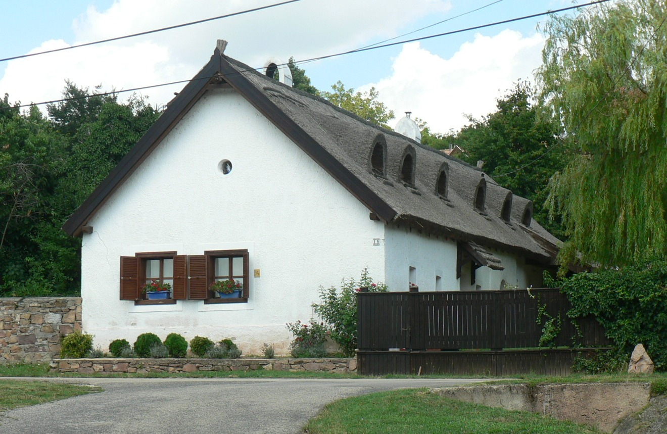 Lovas - jellegzetes régi lakóház